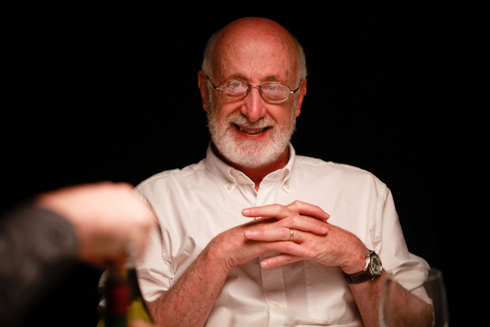 Stephen Goldblatt on FilmFellas 8